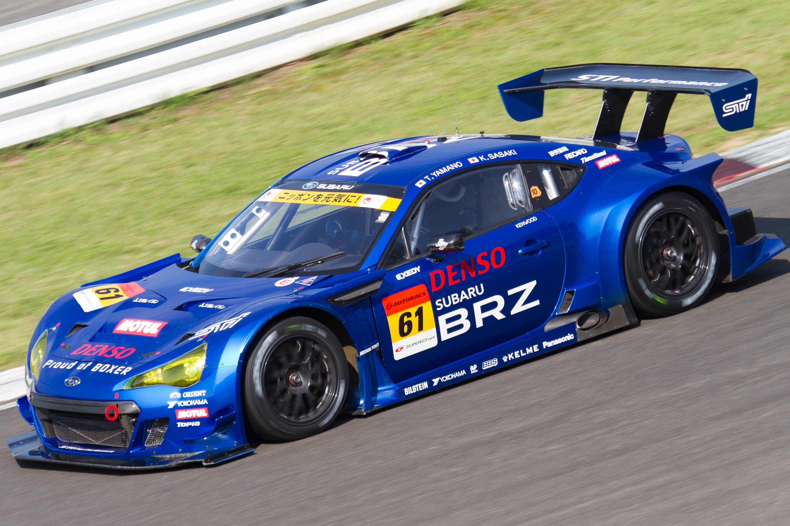 Super GT 2012 Rd.4 SUGO GT 300km: Tetsuya Yamano (R&D Sport) driving the Subaru BRZ GT300.